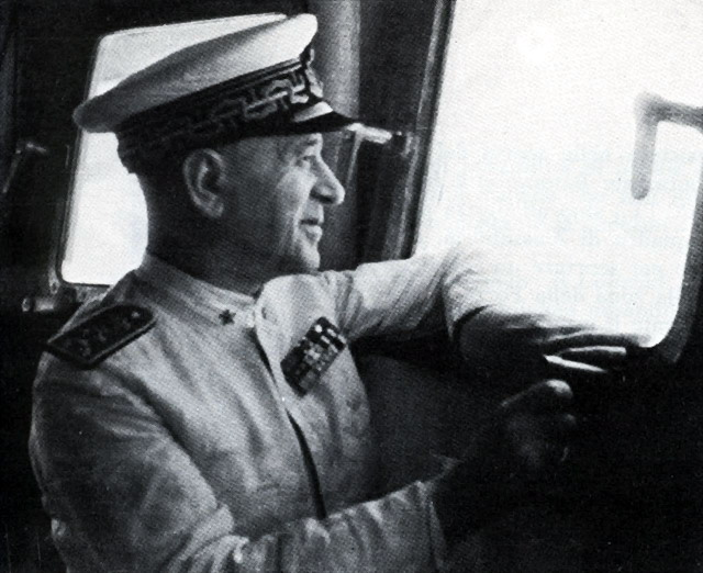 Italian Ammiraglio di Squadra Inigo Campioni (1878-1944)